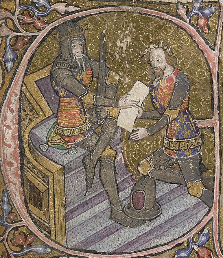 "Edward The Black Prince receives the grant of Aquitaine from his father King Edward III" Initial letter "E" on a page of illuminated manuscript, date: 1390; British Library, shelfmark: Cotton MS Nero D VI, f.31r. British Library On-line gallery